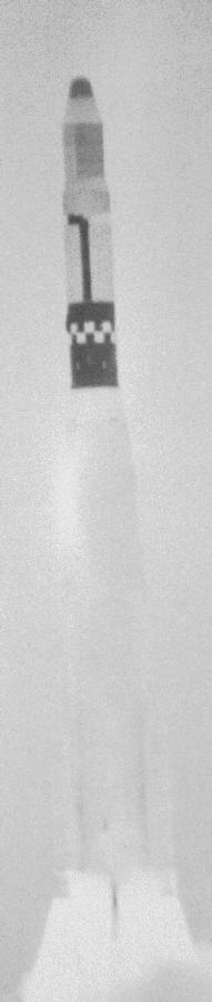 Launch of the Thor SLV-2A Agena D rocket with satellite Corona 97, type KH-4A, July 19 1965.